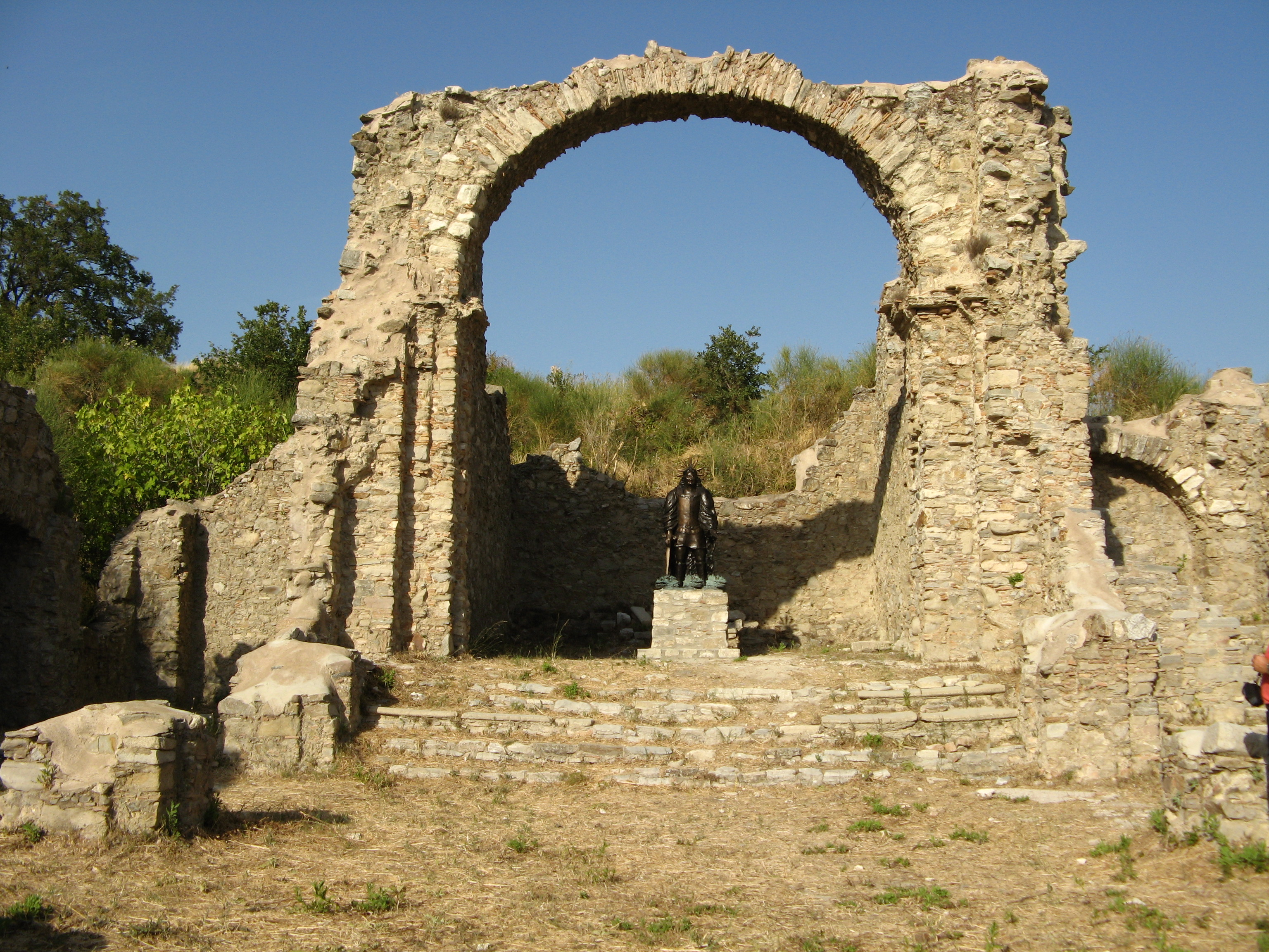 Acerenzia, Ruins of San Teodoro's cathedral (10th century)